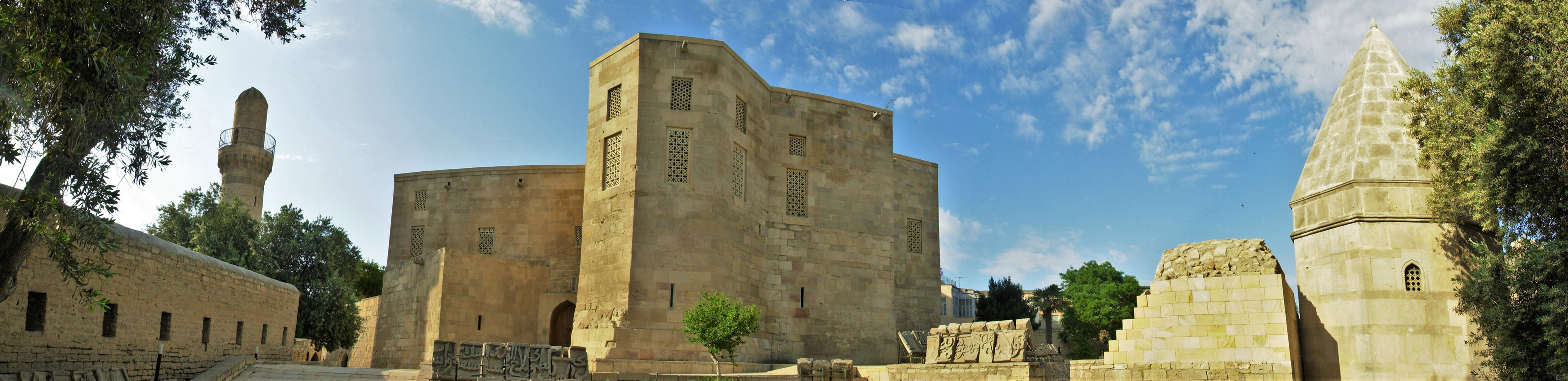 The Shirvanshah Palace, Baku, Azerbaijan 2009